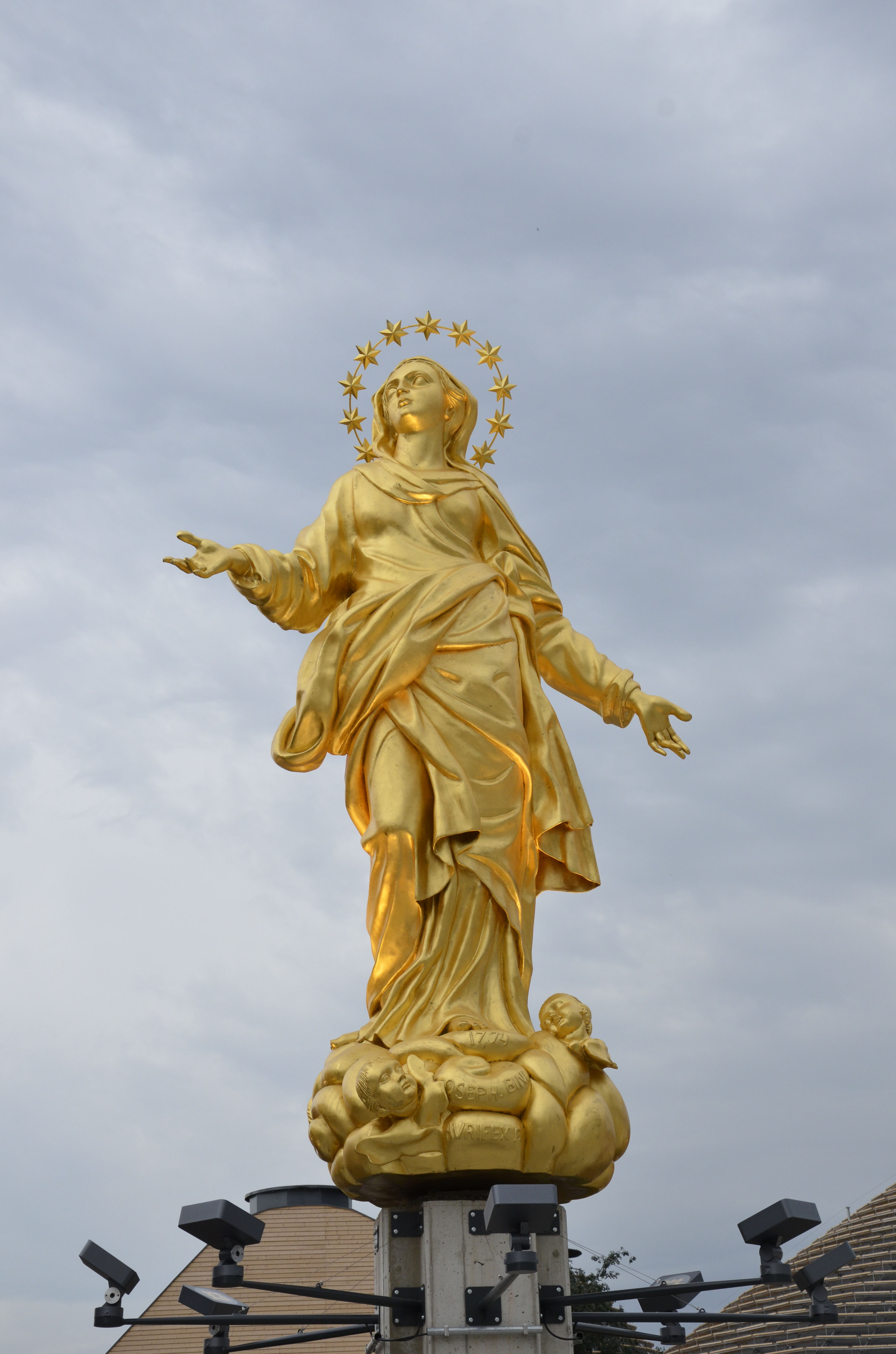 Veneranda Fabbrica del Duomo di Milano Pavilion ("Venerable Factory of the Duomo of Milan"), Expo 2015, Milan, Italy.